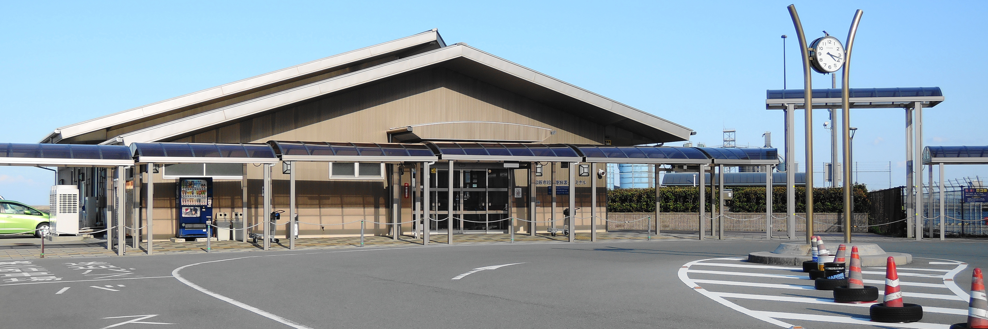 Matsusaka Terminal,Mie prefecture,Japan